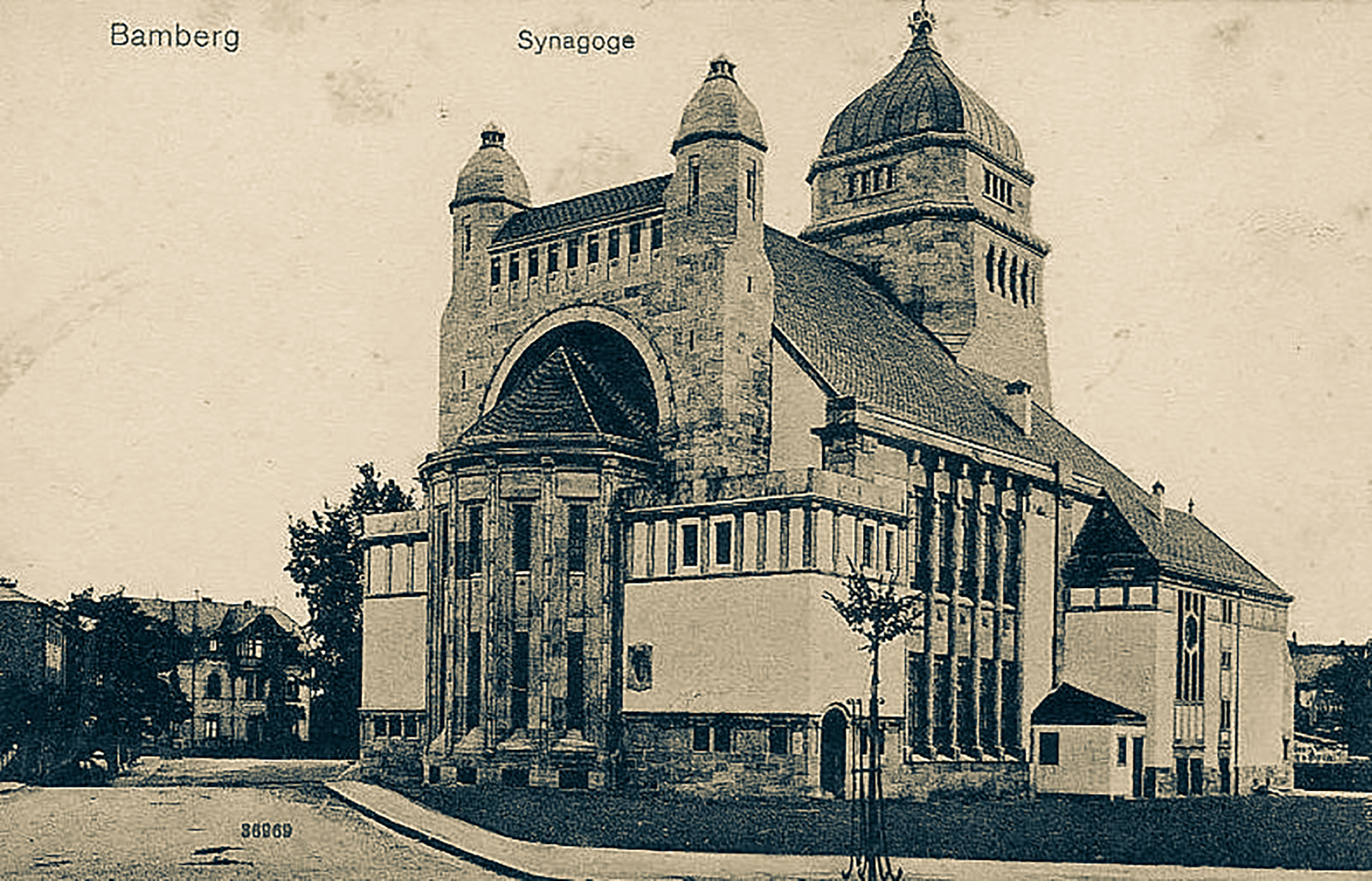 The Synagogue in Bamberg